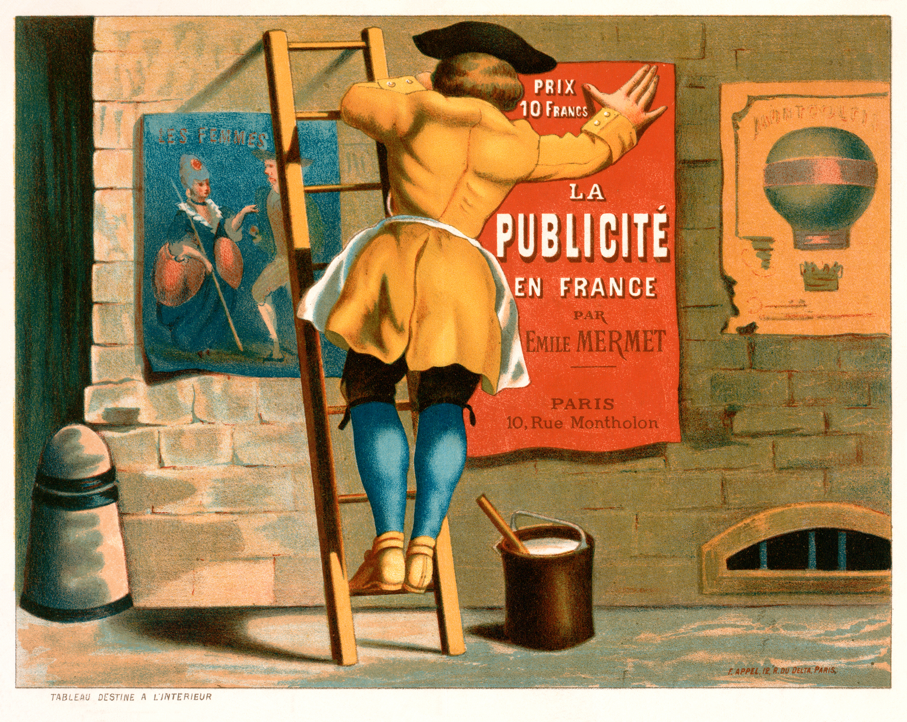 Man posting an advertisement for "La publicité en France par Emile Mermet" on a city wall between a poster of two people captioned "les femmes" and a poster of a "Montgolfier" hot-air balloon.